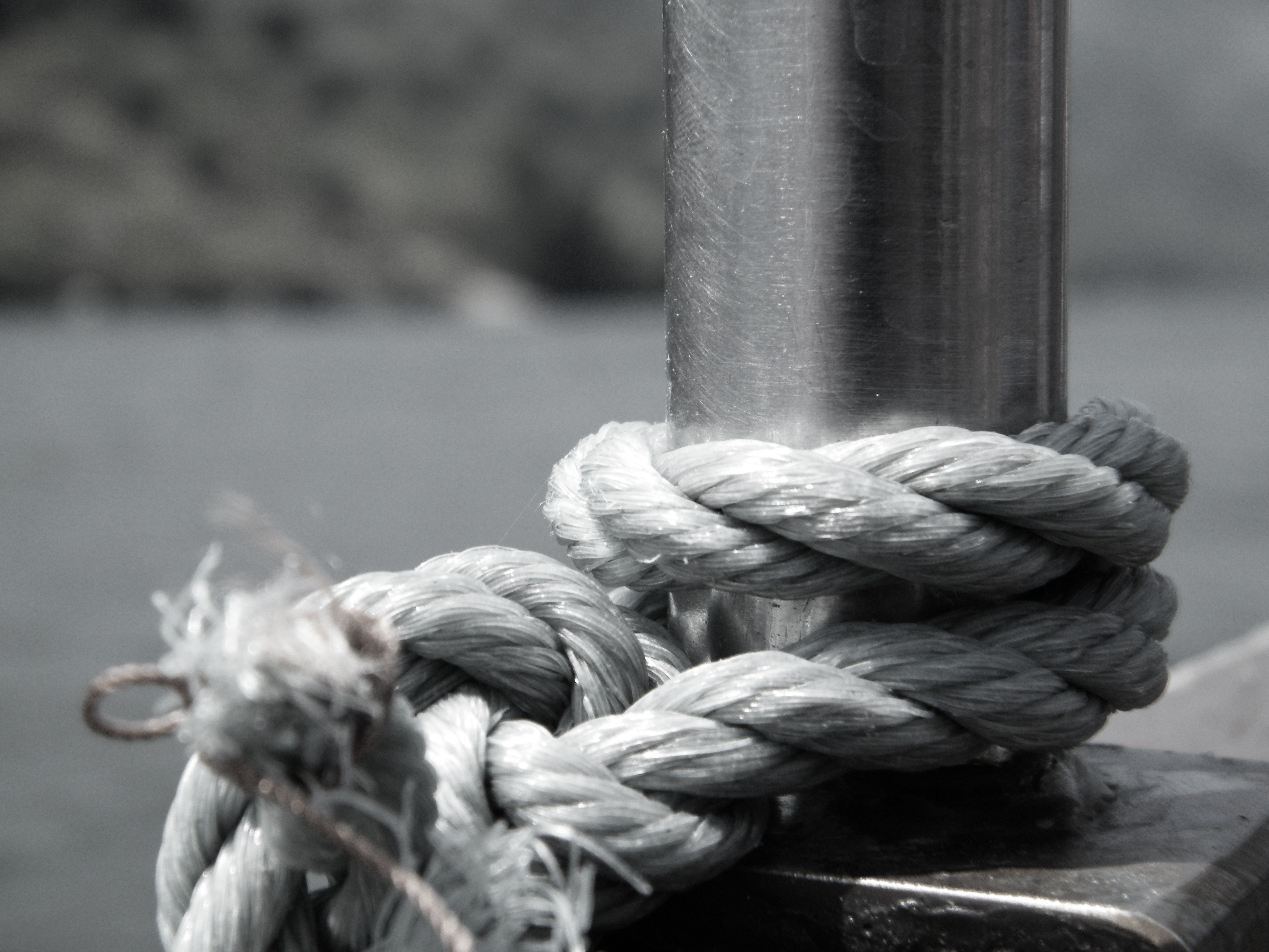 rope, cord